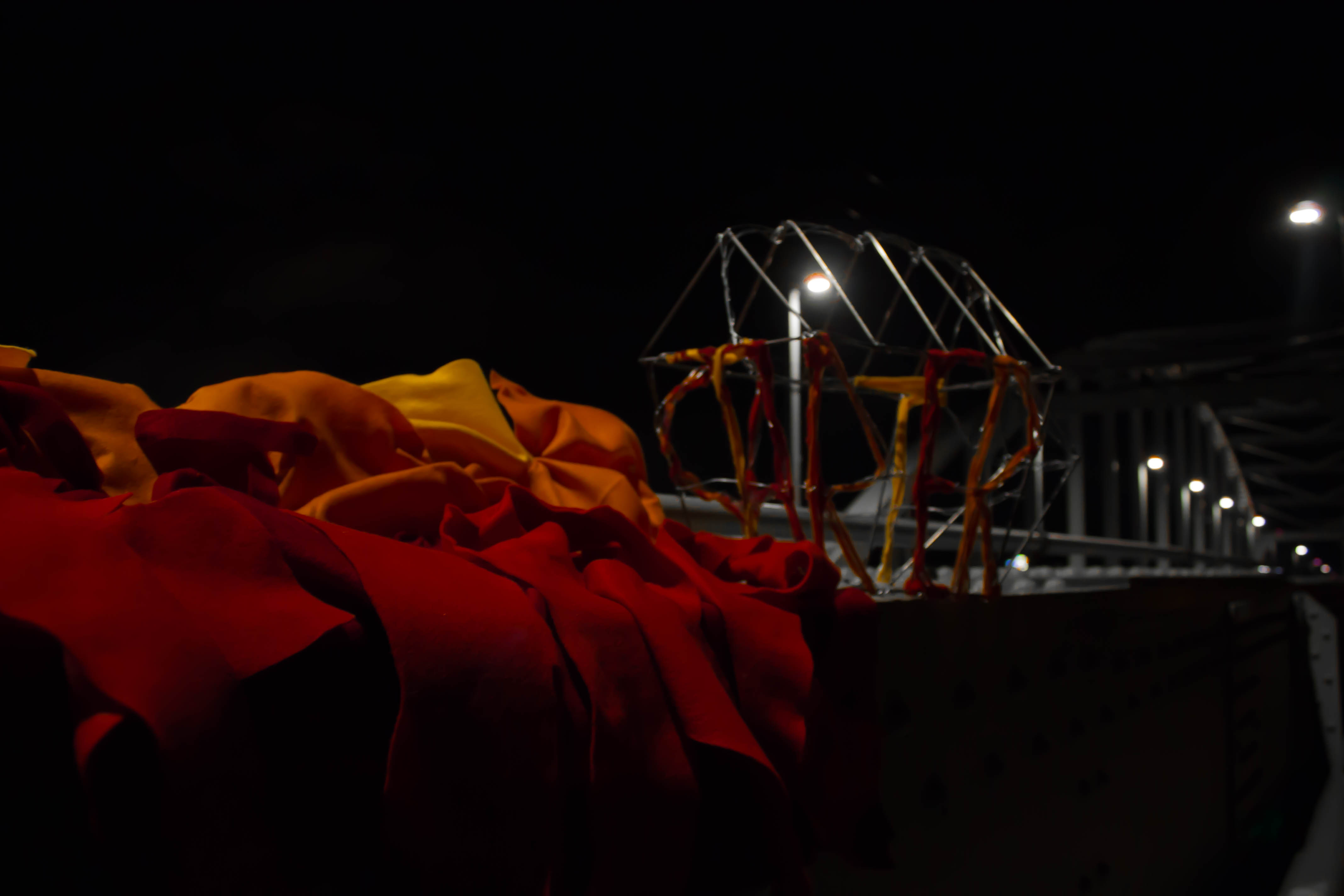 Fire-like drapery (left), geometric statue of a hand, made out of metal (right)